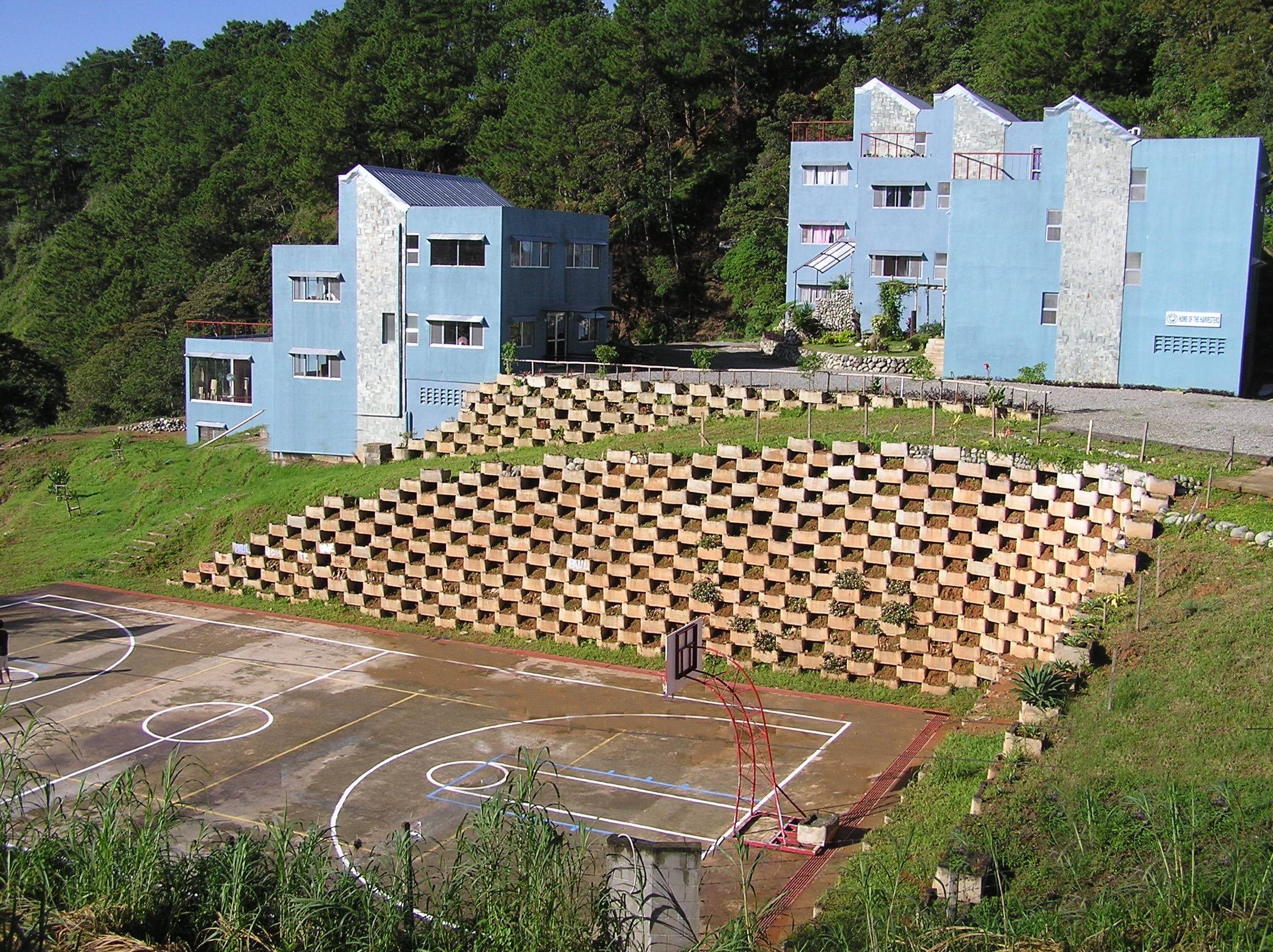 Side view of the campus, including the basketball court.